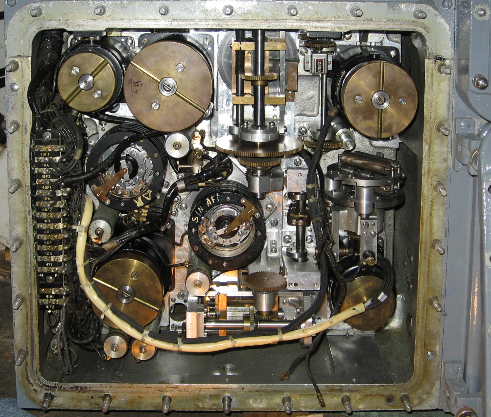 The inner gears of that do the calculations on a Torpedo Data Computer. This photo is of the fully restored and operational TDC Mark III on the USS Pampanito, docked in San Francisco, CA